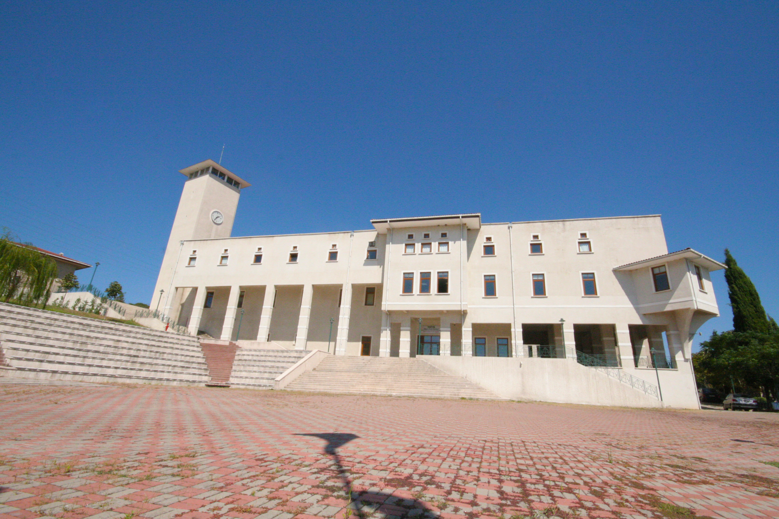 Inanc Lisesi Information & Arts Center